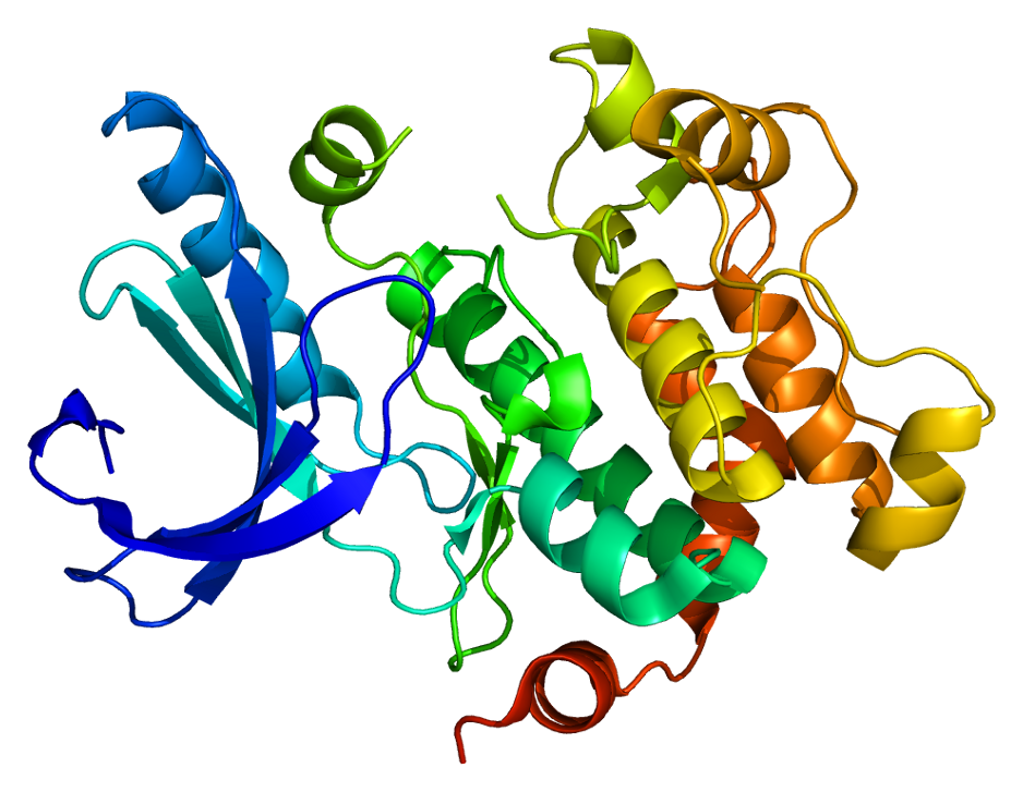 Structure of the MAP2K1 protein. Based on PyMOL rendering of PDB 1s9j.